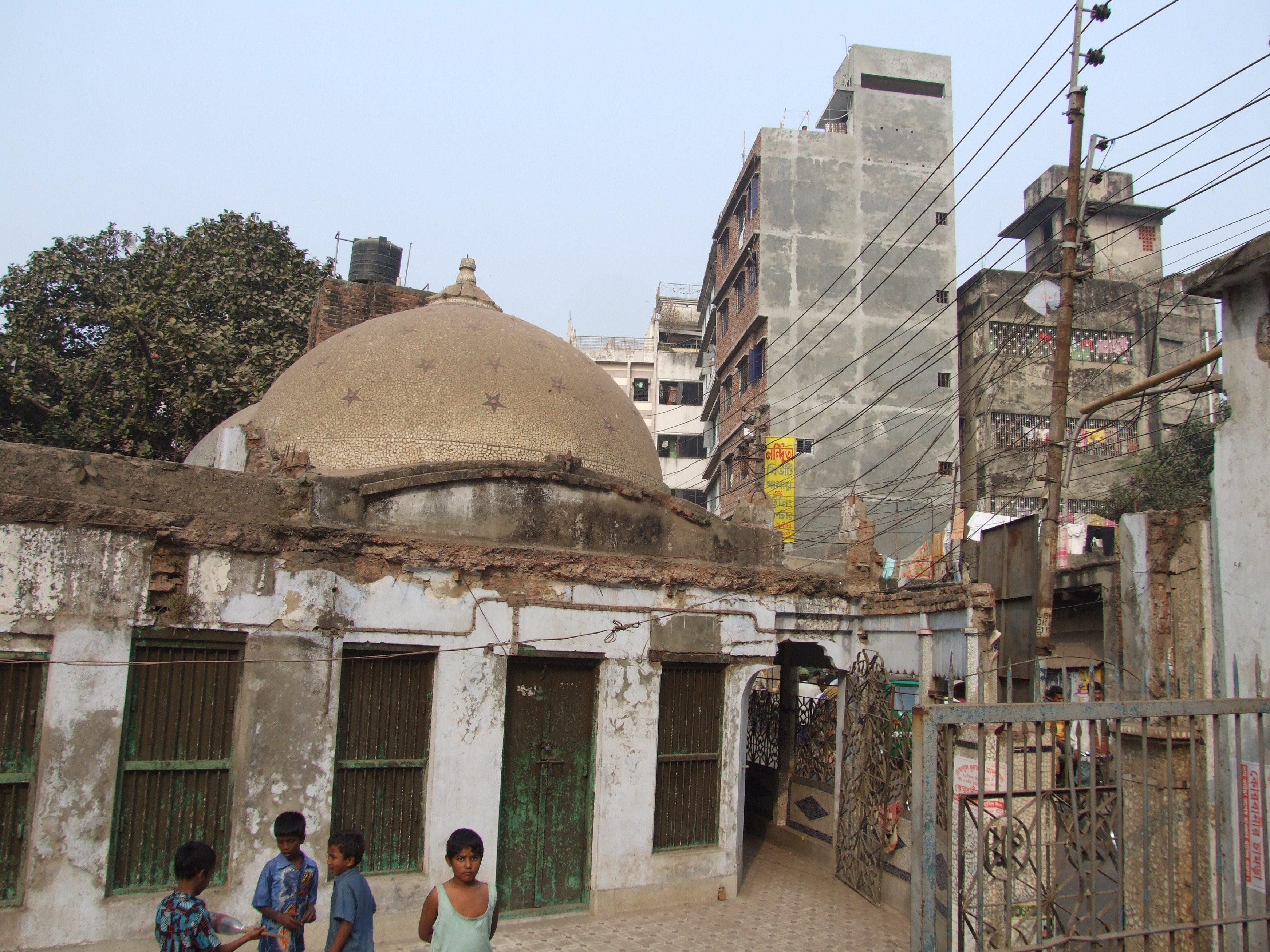 This mosque is more than 900 years old, situated in Narinda, Old Dhaka, Bangladesh. My Students, "Arafat & Hossien" helped me taking this picture.